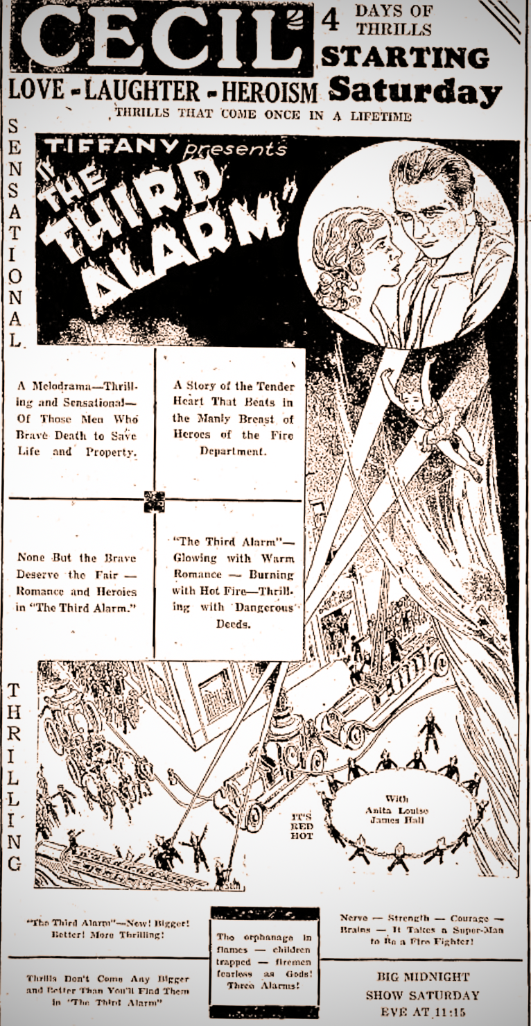 Newspaper advertisement for the American drama film The Third Alarm (1930) in the Globe-Gazette (Mason City, Iowa).